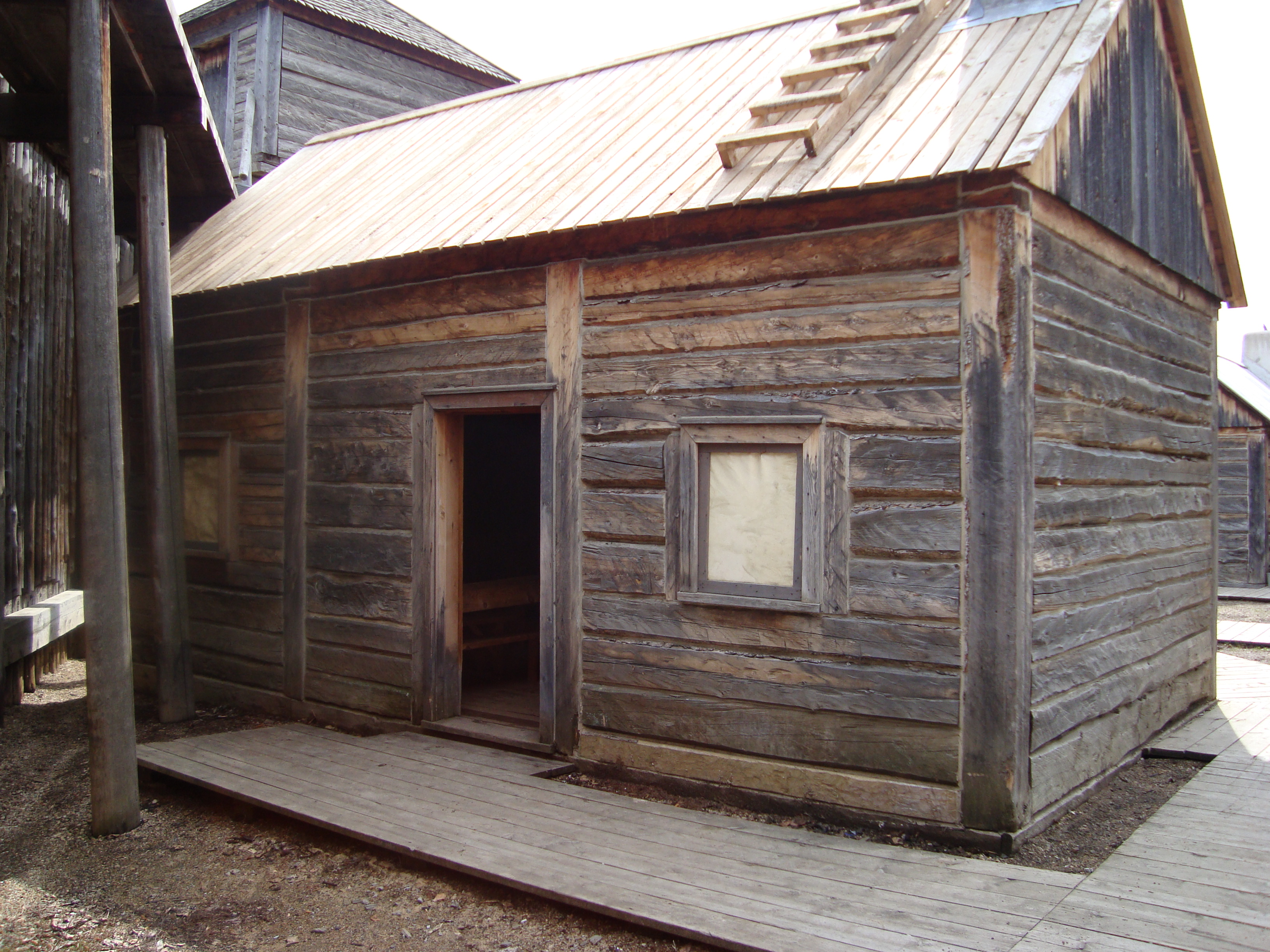 A rebuilt version of Robert Rundle's chapel c. 1846 at Fort Edmonton Park.